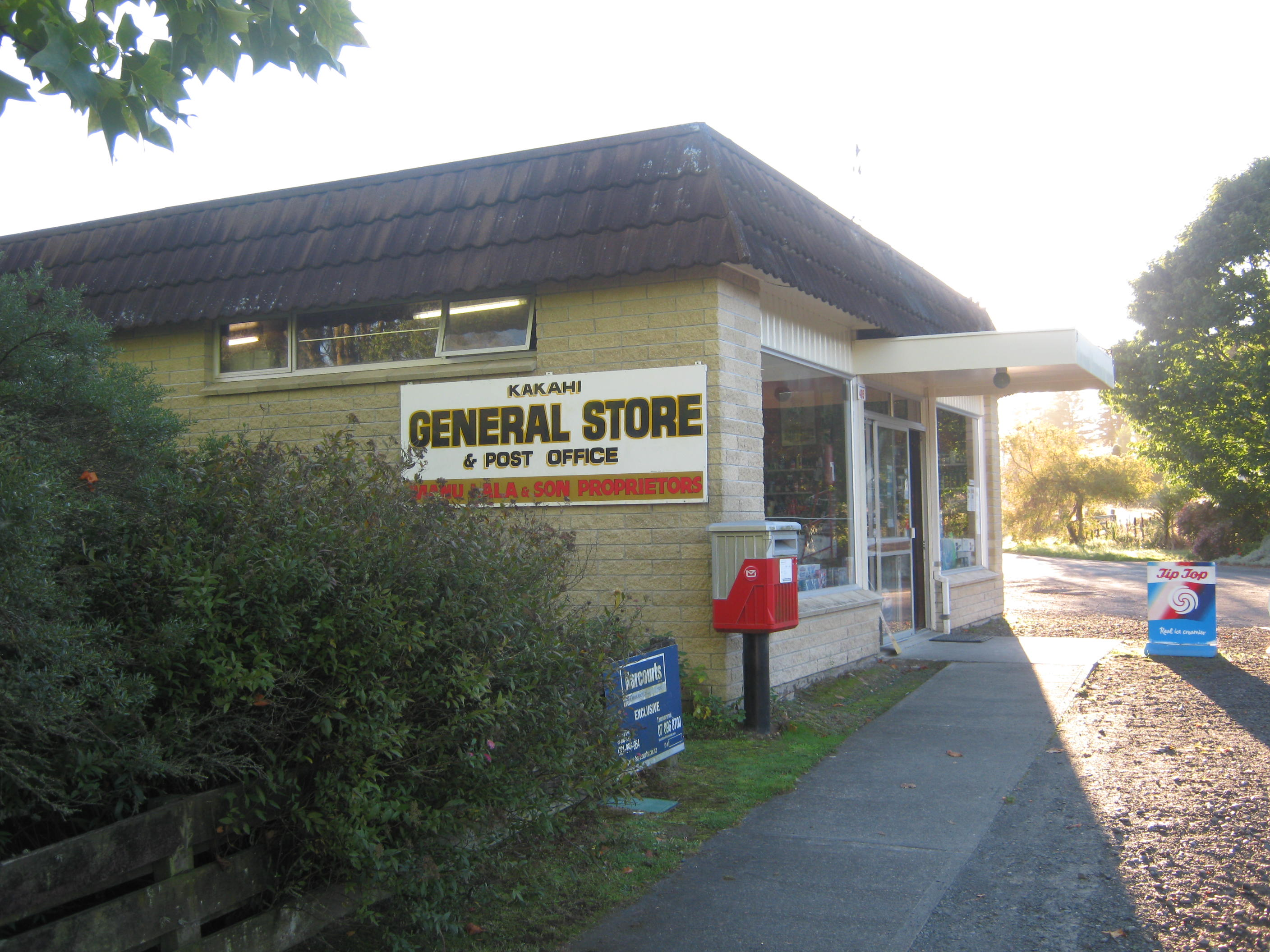 General Store, Kakahi in New Zealand